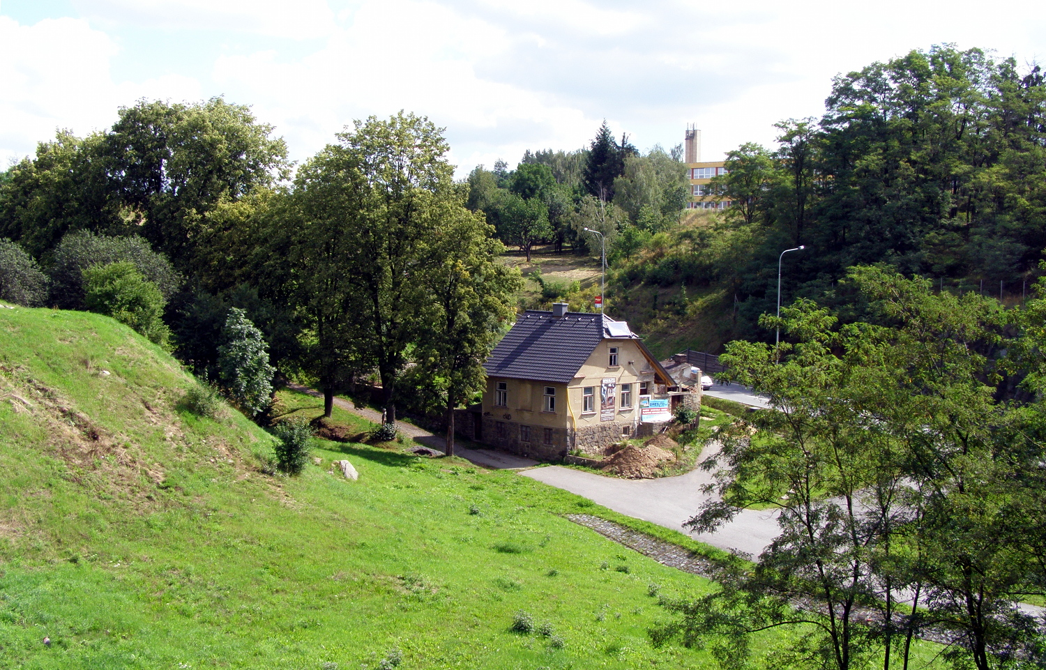 Třebíč-Nové Město. The only remaining house in Na Spravedlnosti street near Rafaelova street. Demolition zone, late 1980s